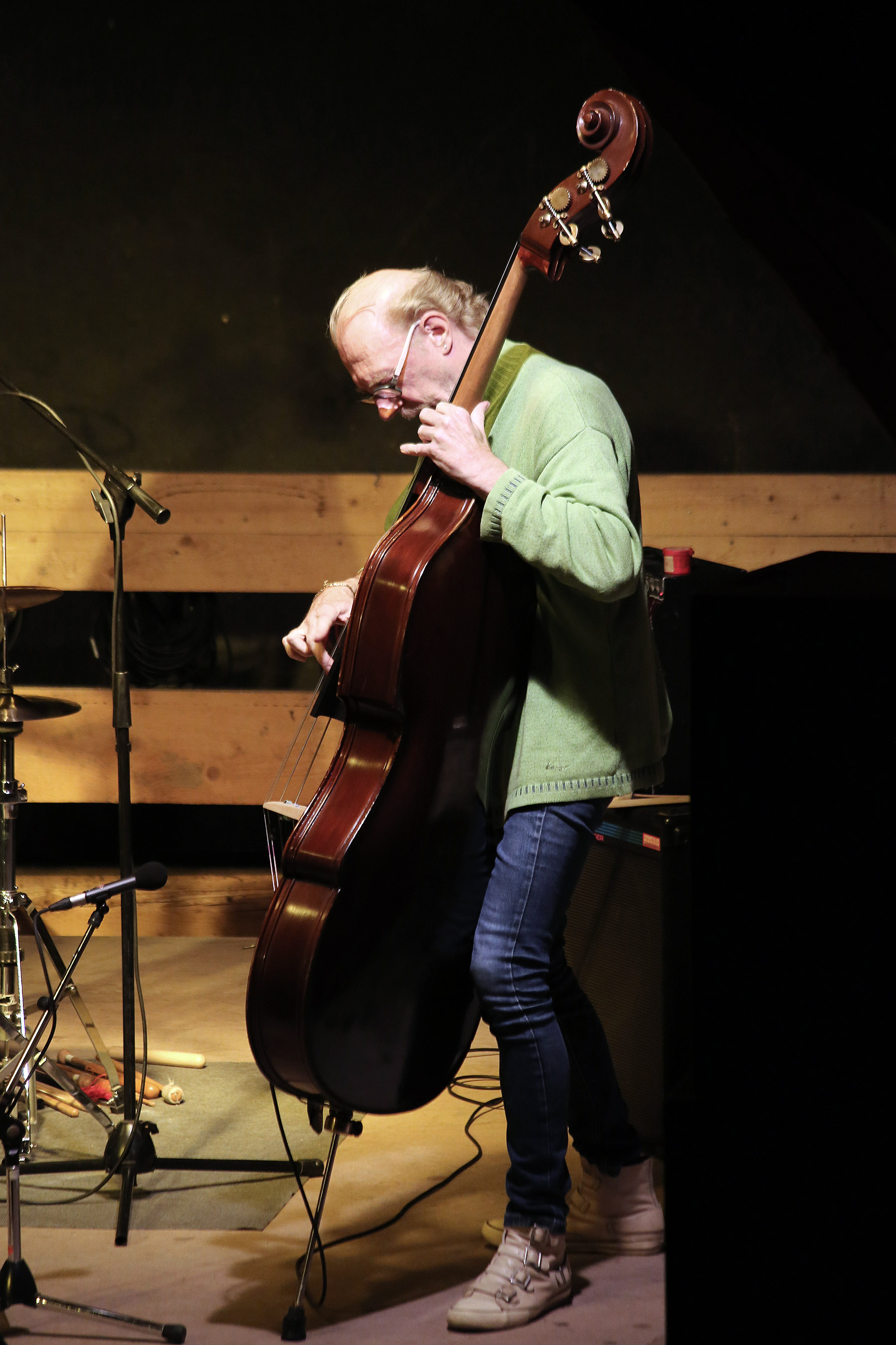 Dangerous Musics - Jon Corbett (tp.), Nick Stephens (b.), Louis Moholo (dr.) - Ulrichsberger Kaleidophon (Ulrichsberg, Upper Austria)